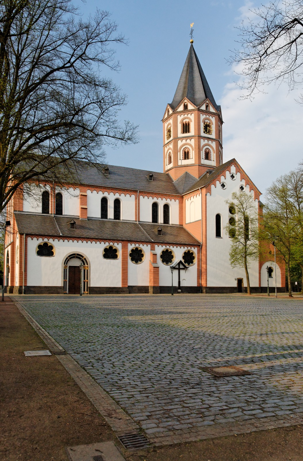 Saint Margareta in Düsseldorf-Gerresheim, Germany